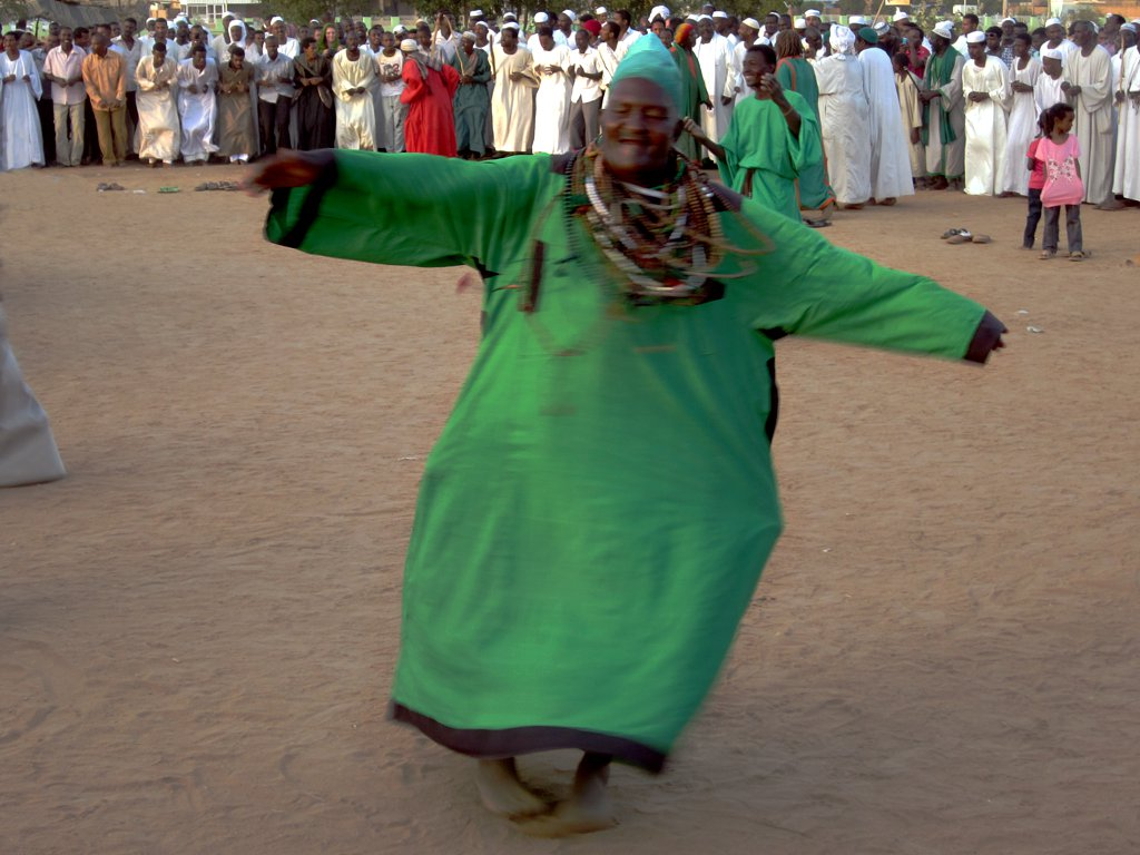 A whirling dervish achieves religious ecstasy at a Friday afternoon Sufi cermoney in front of the Hamed el-Nil Mosque and Tomb in Omdurman, Sudan